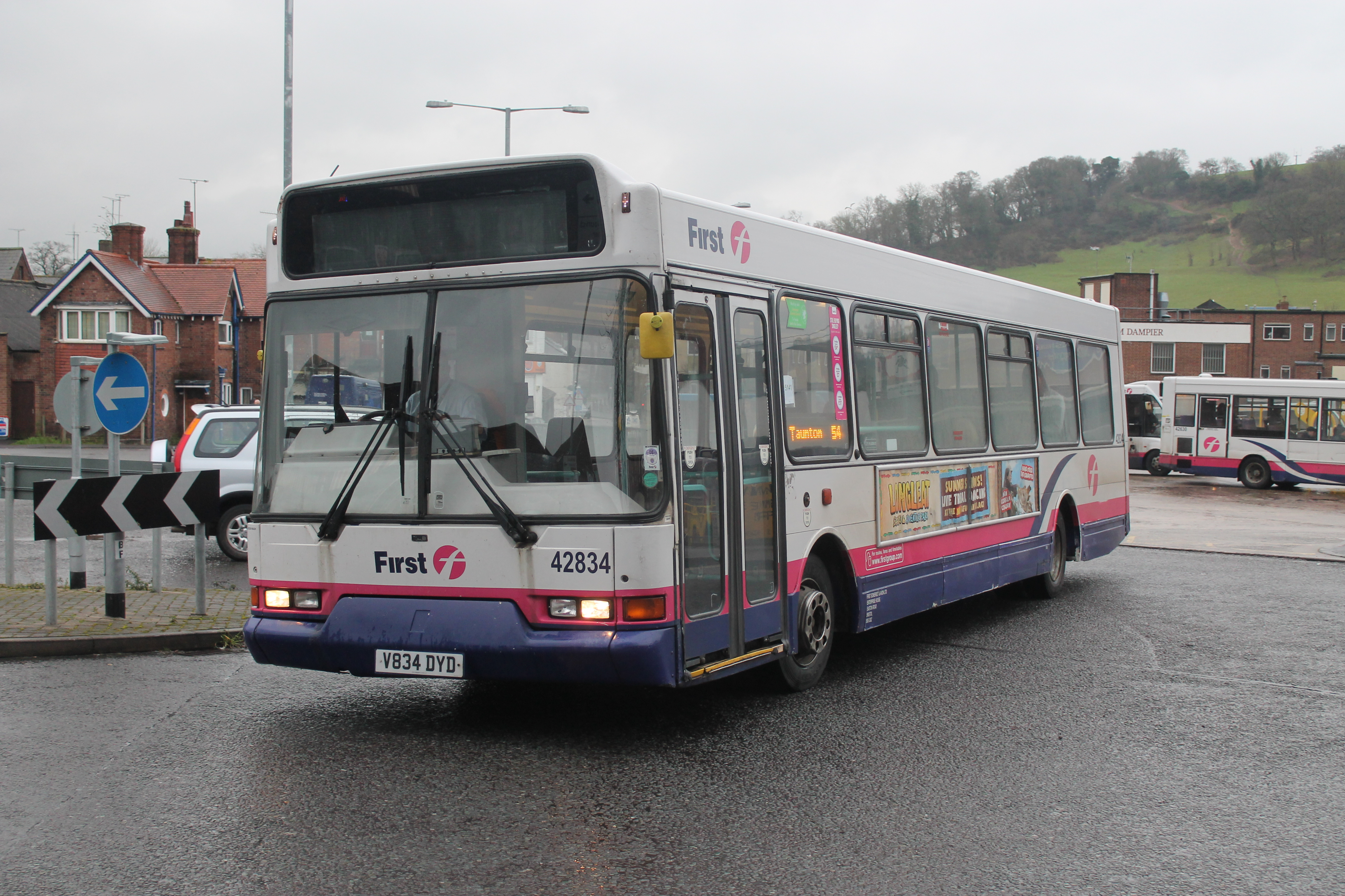 I think this is an East Lancs Spryte something, now looking tired seen leaving Yeovil Bus Station. V834DYD